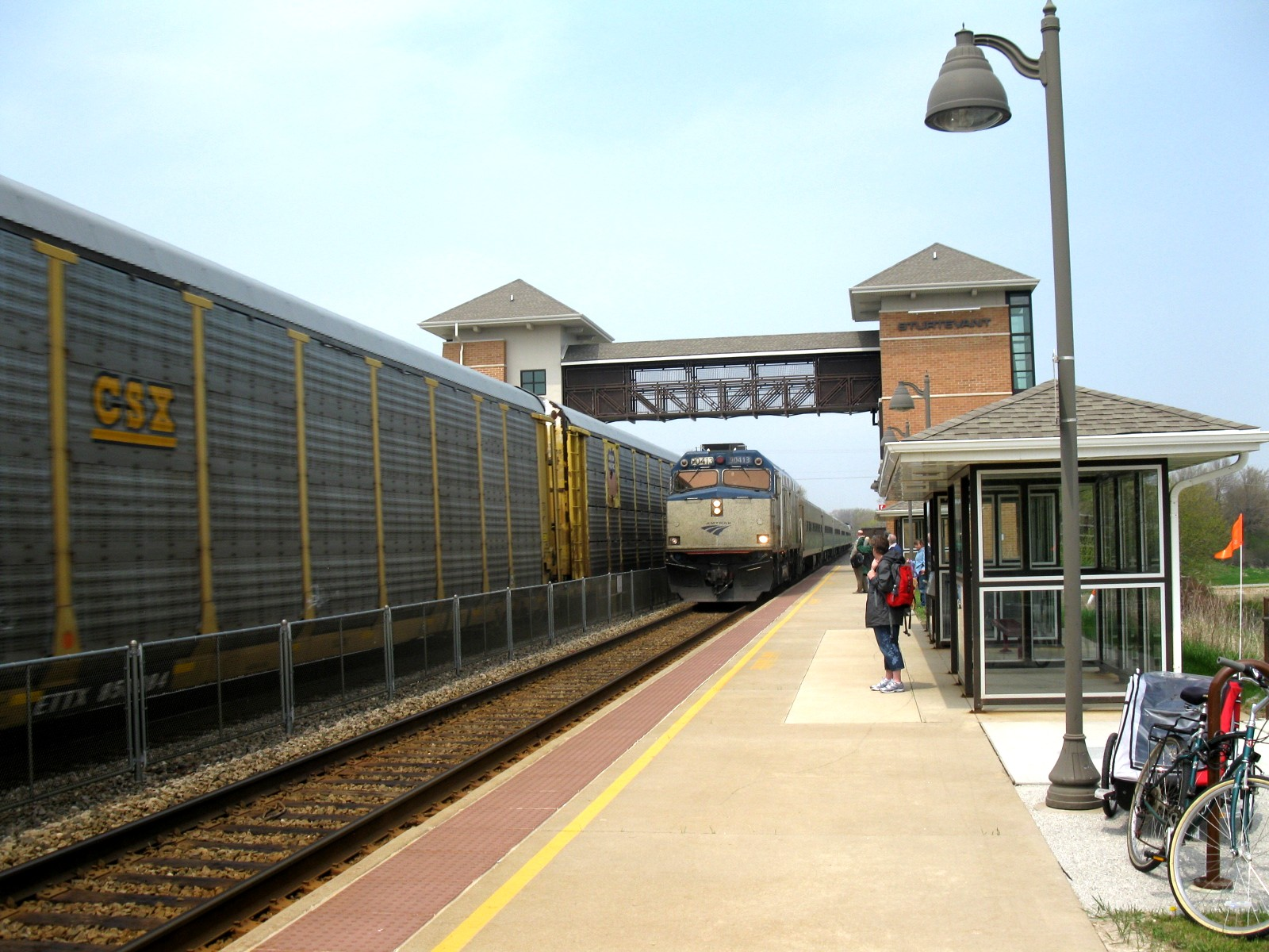 A Hiawatha Service arrives at Sturtevant as a Canadian Pacific freight passes.